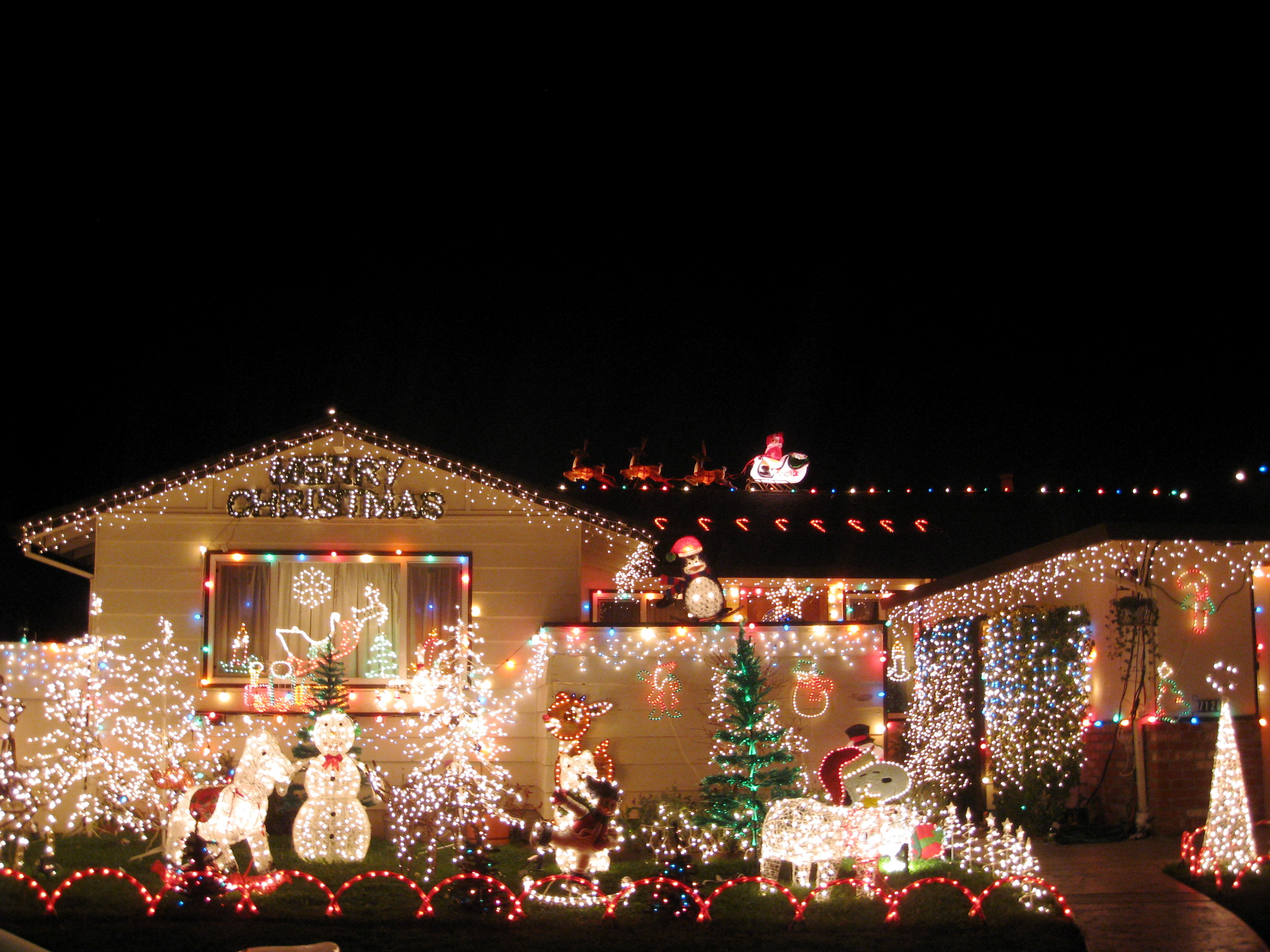 These people really went all out